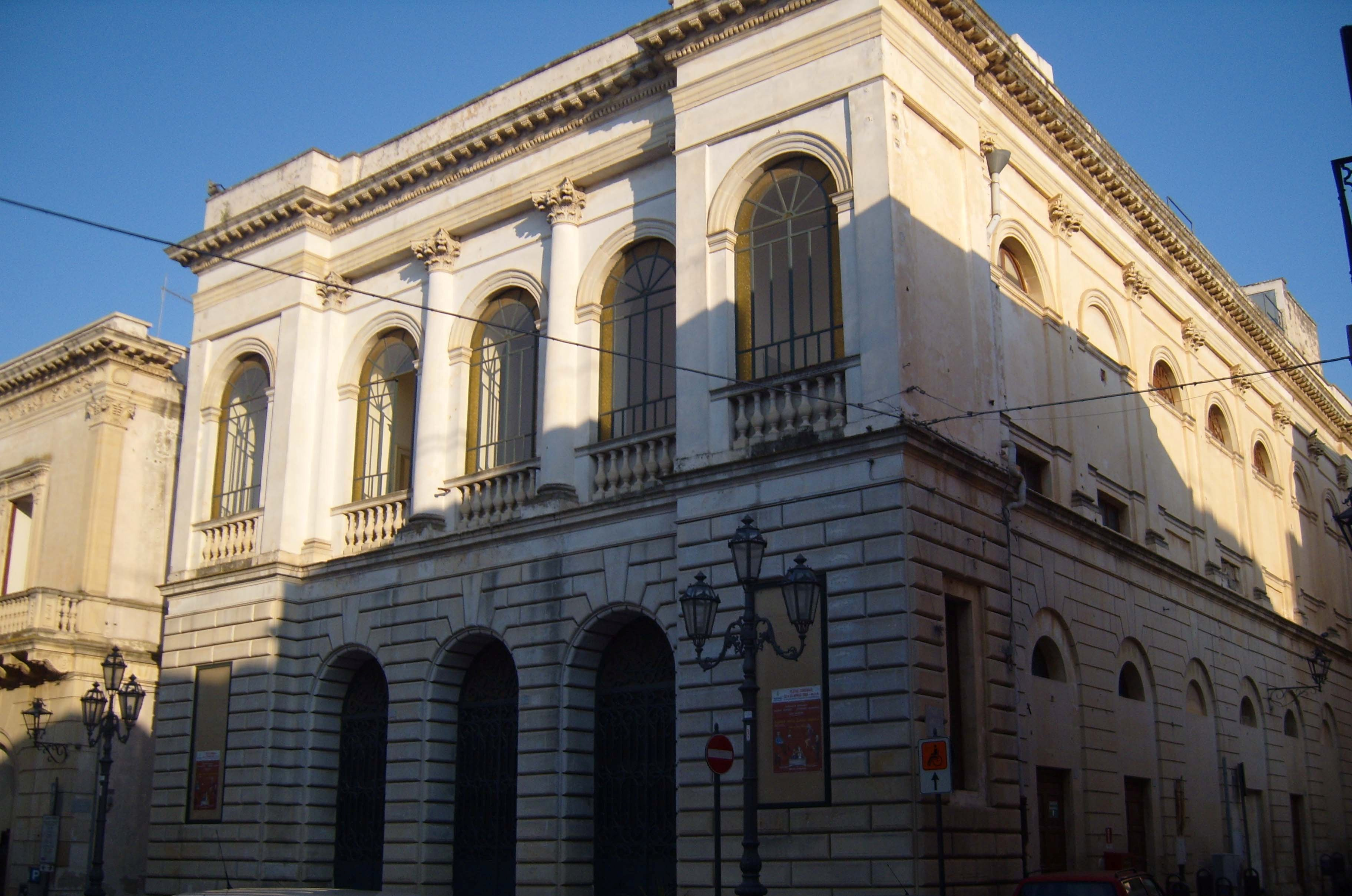 City Theatre in Nardò, Province of Lecce - Apulia (Italy)